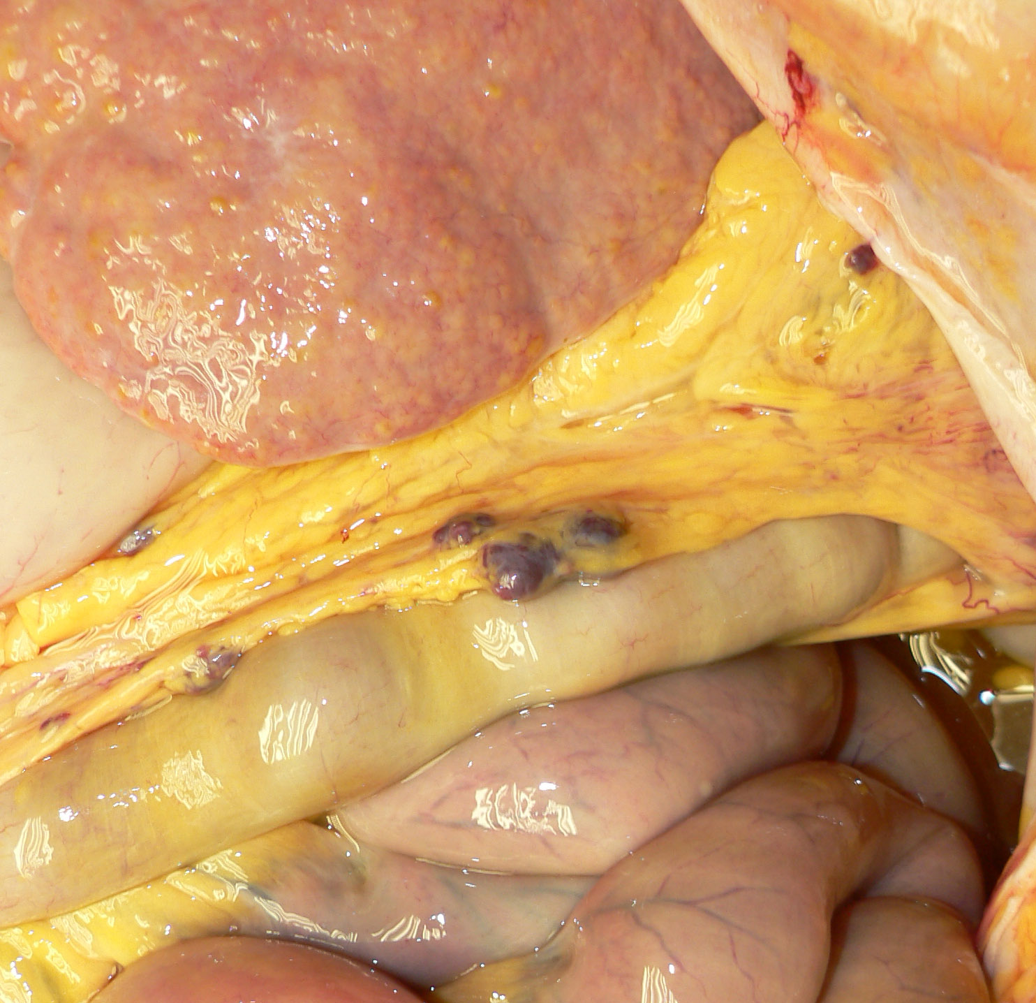 Splenic parenchyma and liver cirrhosis are visible in the view of the upper left abdomen. The patient has splenosis after a splenectomy due to physical trauma.